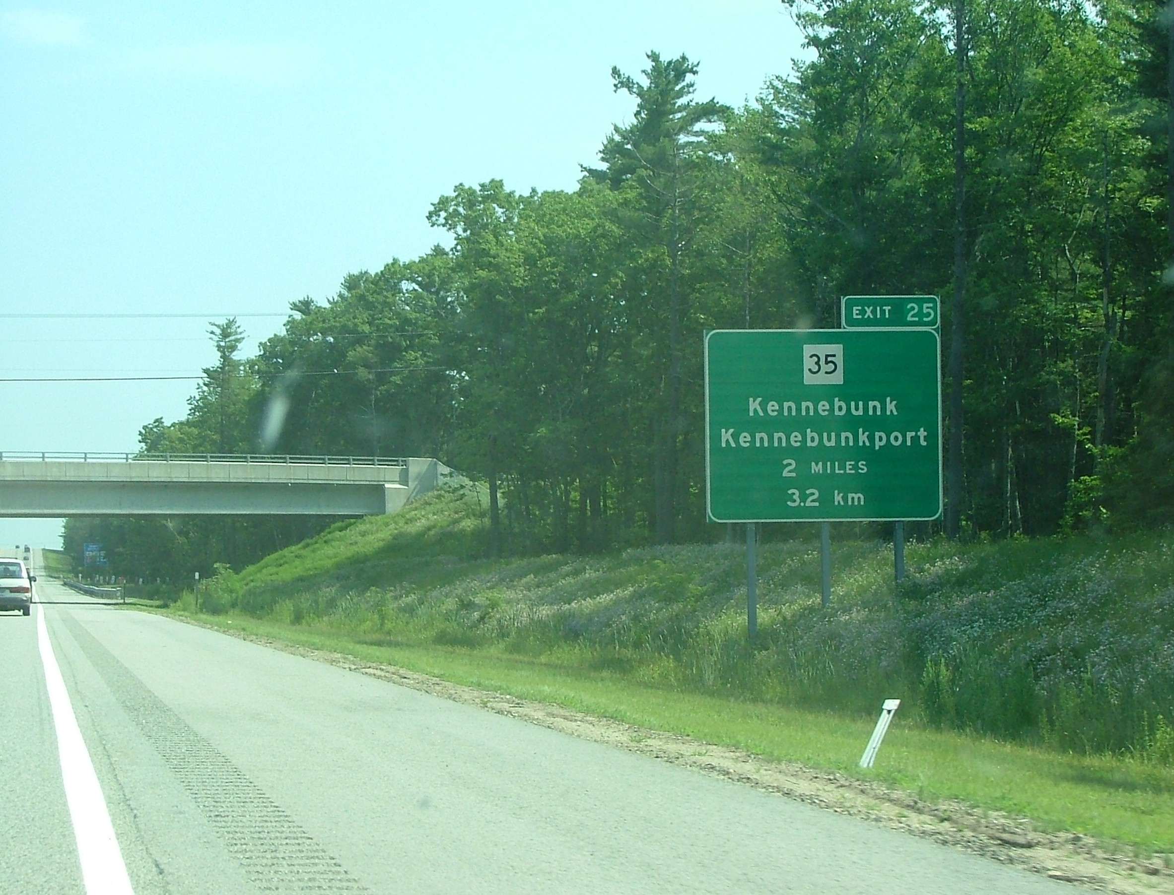 Exit sign om the i-95 near Kennebunk, Maine with distance in miles and kilometers.